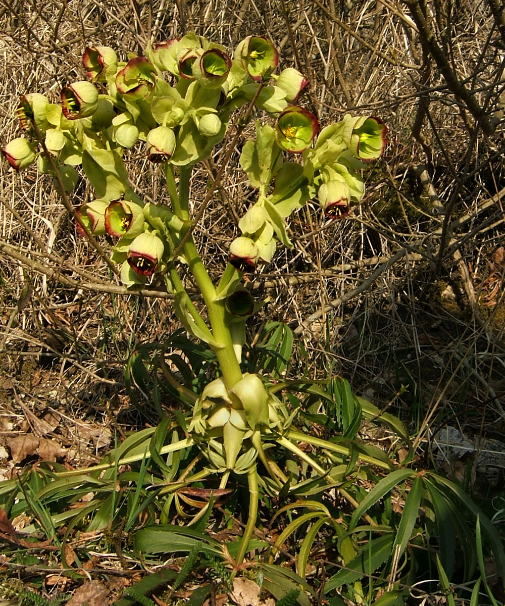 Stinking hellebore, Dungwort, or Bear's foot located at 850/900 m, Swabian Alb, Baden-Württemberg, Germany Aragonés: Ixarruego, chigüerre, broxera